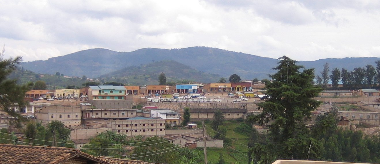 Gitarama City Centre